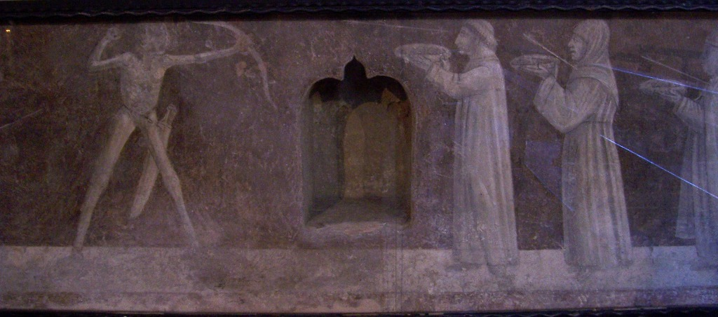 St Mary, Bienno, Val Camonica